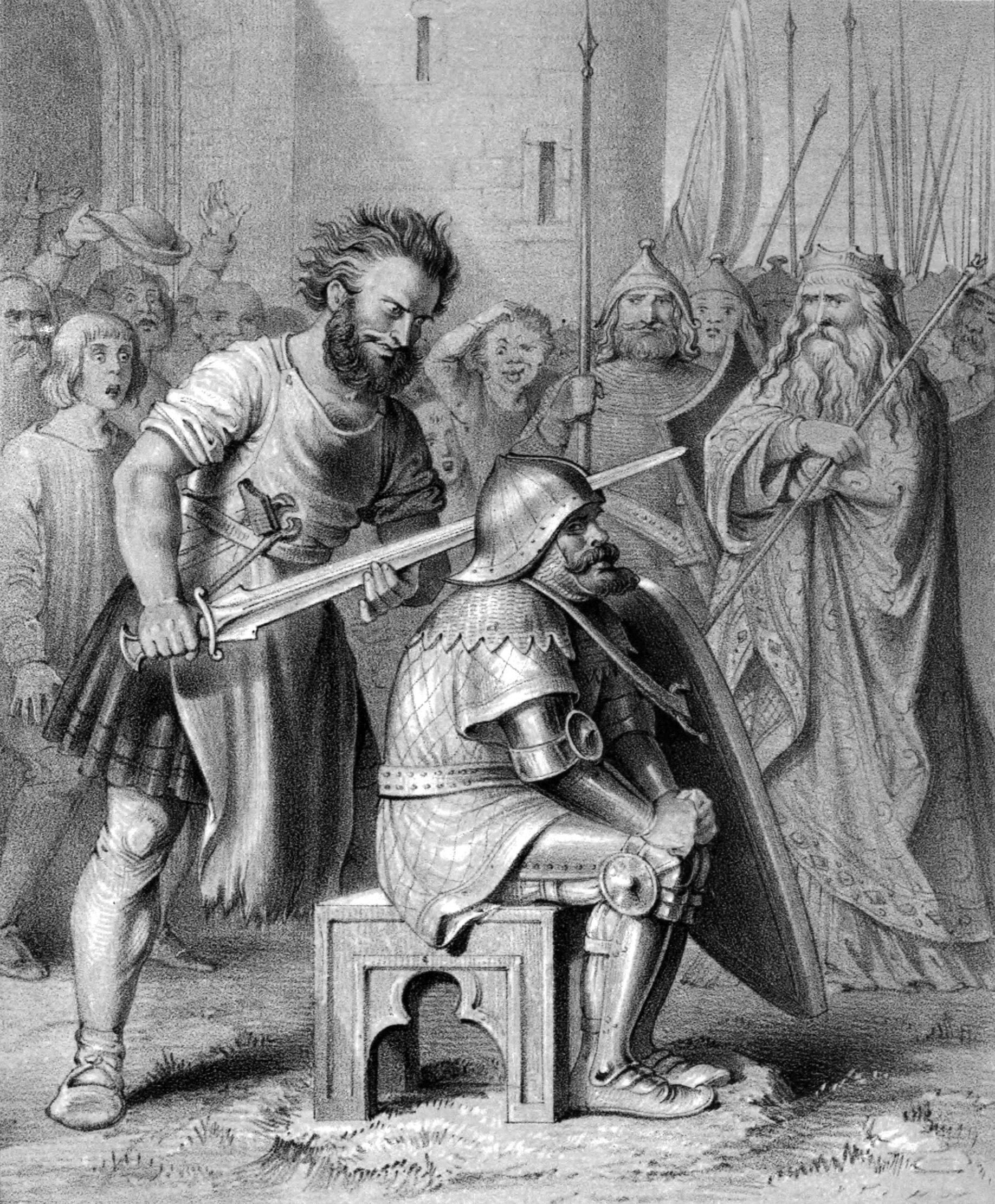 Wieland tests the edge of his sword Minmung on Amilias.